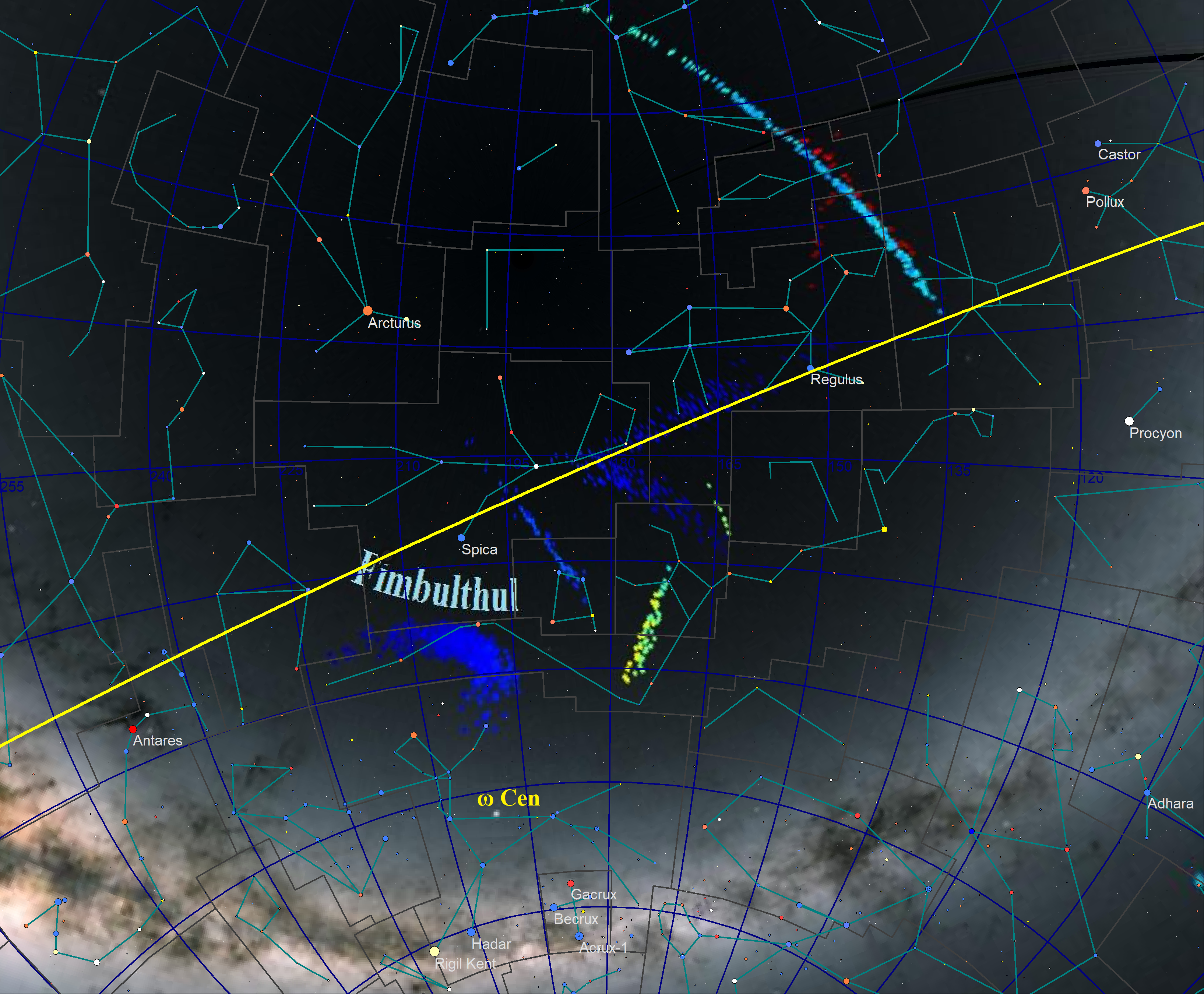 Fimbulthul (star stream) projection onto celestial sphere